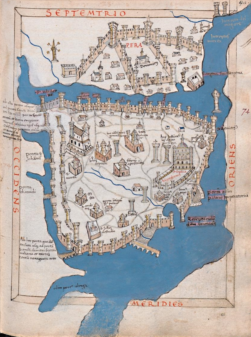 Christophorus Ensenius/Bondelmontius, Liber insularum Archipelagi, MS. Laur. Plut.92.25 : map of Constantinople